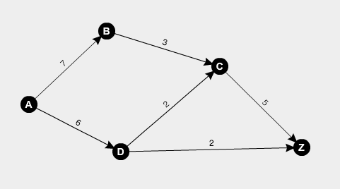 Slika 1.1 Primer 1